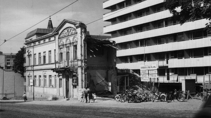 Nobel's House being demolished 1961